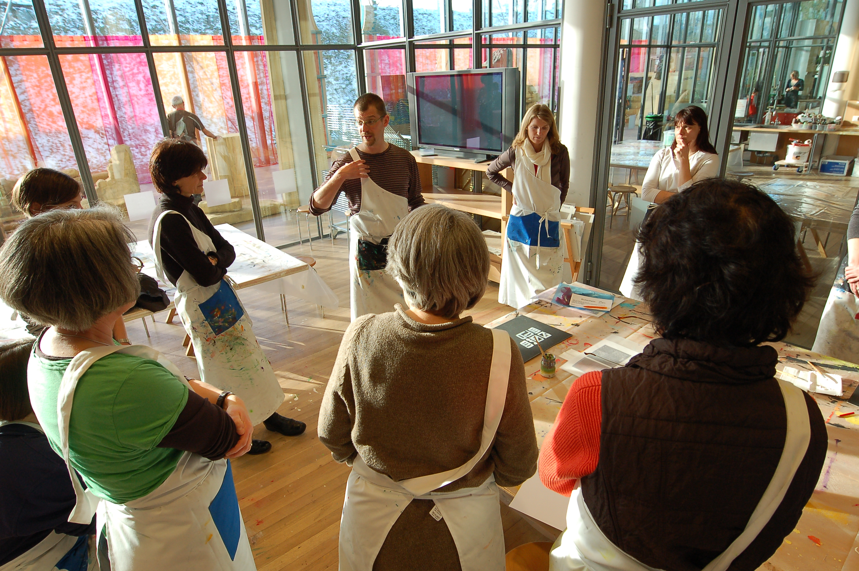 A practical art education workshop for teachers.